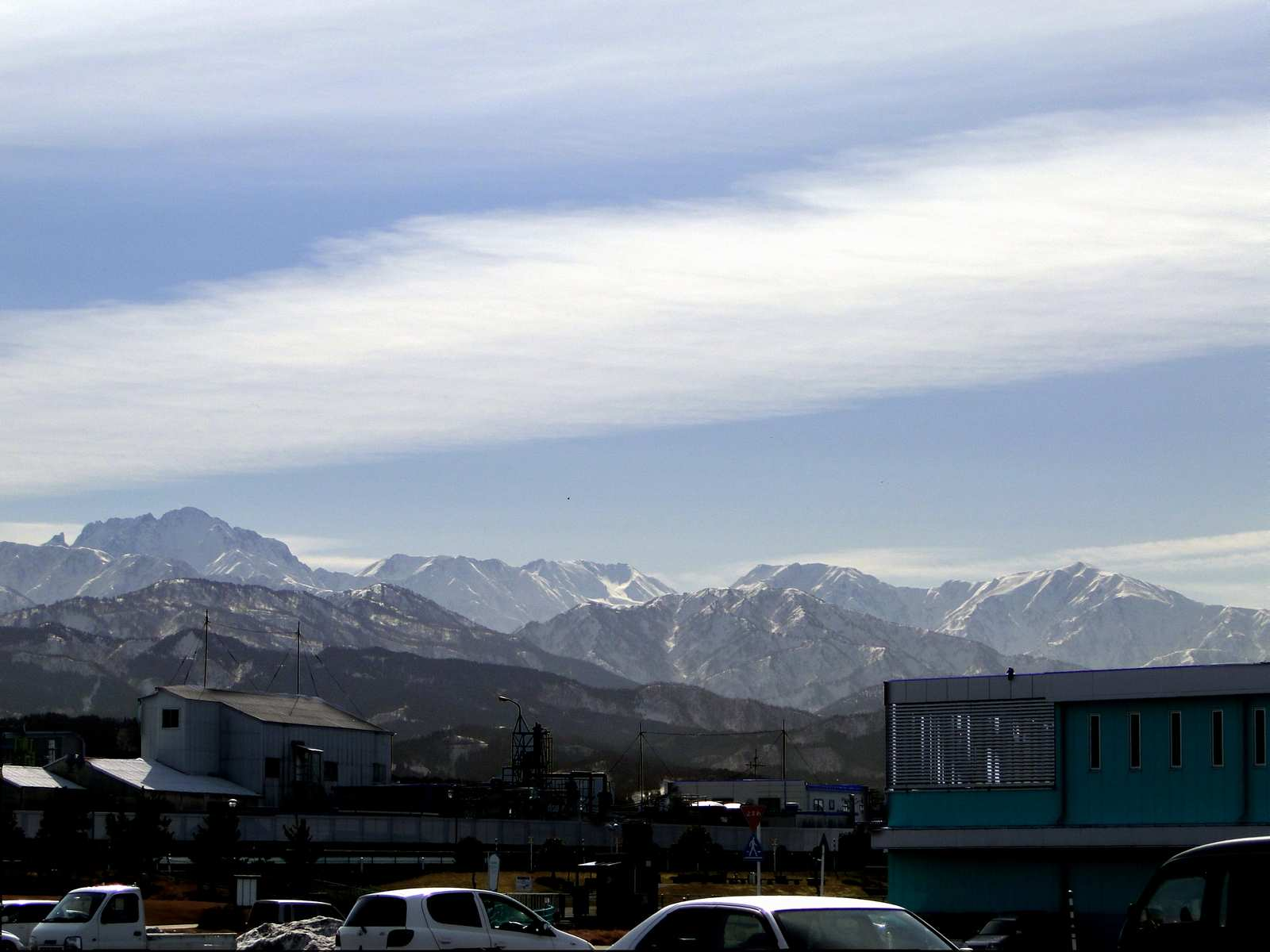 View from_Uminoeki_sinkirou